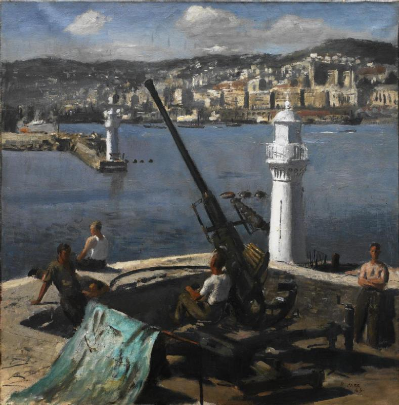 A Bofors Gun, Algiers image: a manned Bofors gun in an emplacement at the mouth of the port of Algiers. Across the water the city is visible in the background, rising up the hill.